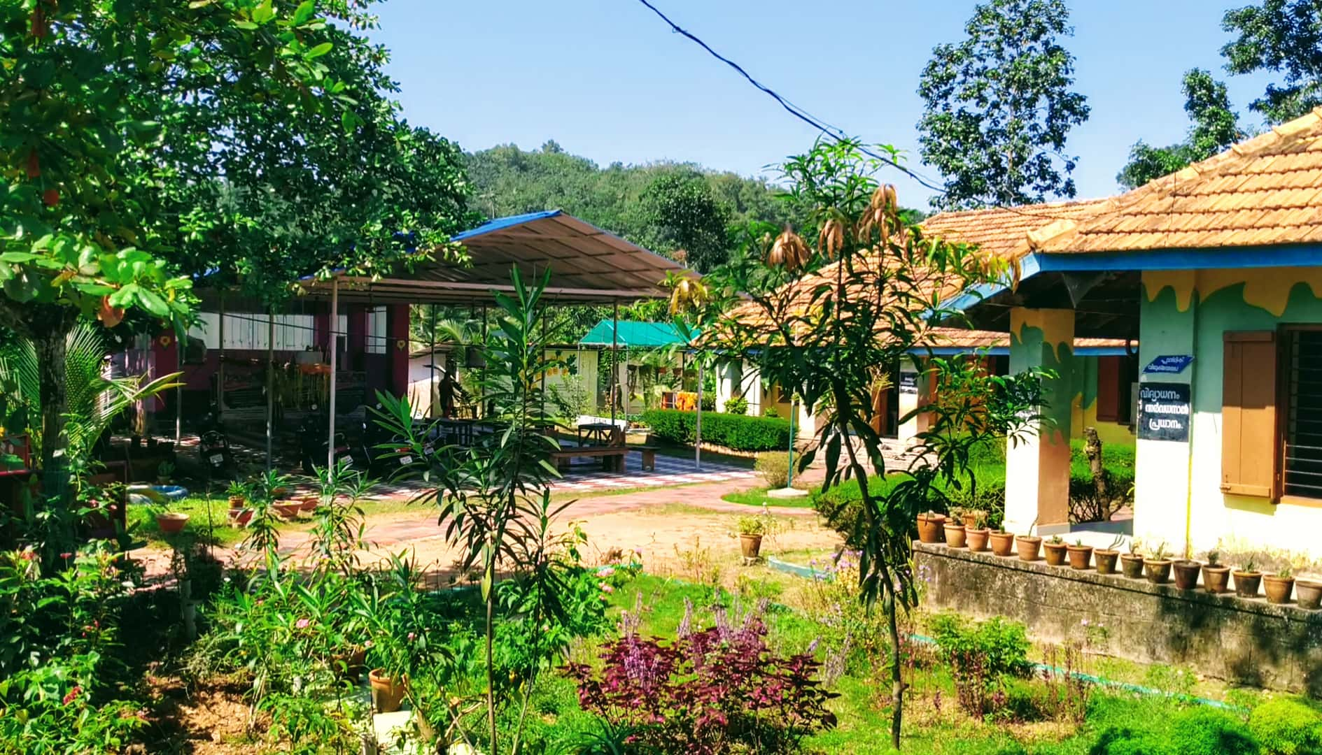 Butterfly Garden view of GLPS Kadampanad Bhagavathipuram Aruvikkara